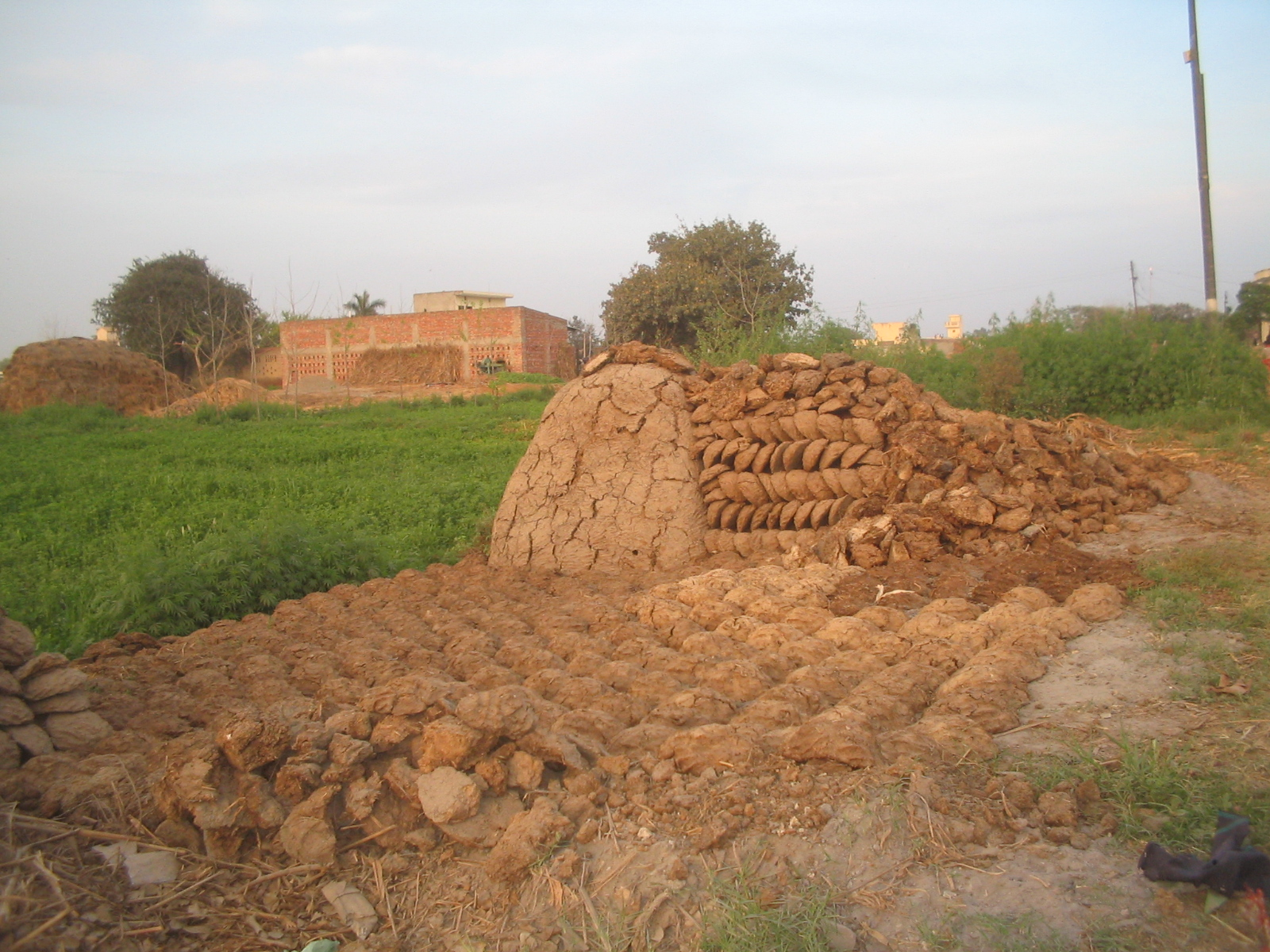 Cow dung cakes are dried and then used as fuel. Cakes are made and then dried on walls, or stacked as in this image. Sights like this and more are common in villages and dairy complexes. Manure is organic matter used as fertilizer in agriculture. Manures contribute to the fertility of the soil by adding organic matter and nutrients, such as nitrogen that is trapped by bacteria in the soil. -- This particular shot is in a village of Jalandhar District in Punjab, when we visited Pholriwal Sewege Treatment plant in making